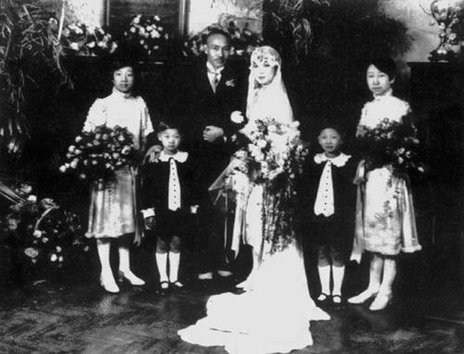 1 Decenber 1927 Chiang Kai-shek and Soong May-ling wedding ceremony in Shanghai. 1927年12月1日,蒋介石与宋美龄在上海举行婚礼。中华照相馆是上海最早的照相馆之一，老板是宋子文的同学，因此当时上海的政要、名人都热衷于在中华照相馆照相。而中华照相馆最得意的摄影作品之一，就是为蒋介石和宋美龄拍摄的结婚照